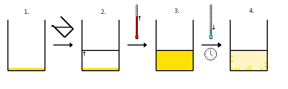 1 solvent recrystallisation: Solvent added (clear) to compound (orange) Solvent heated to give saturated compound solution (orange) Saturated compound solution (orange) allowed to cool overtime to give crystals (orange) and a non-saturated solution (pale-orange). i.e. → Solvent added (clear) to compound (orange) → Solvent heated to give saturated compound solution (orange) → Saturated compound solution (orange) allowed to cool over time to give crystals (orange) and a non-saturated solution (pale-orange).